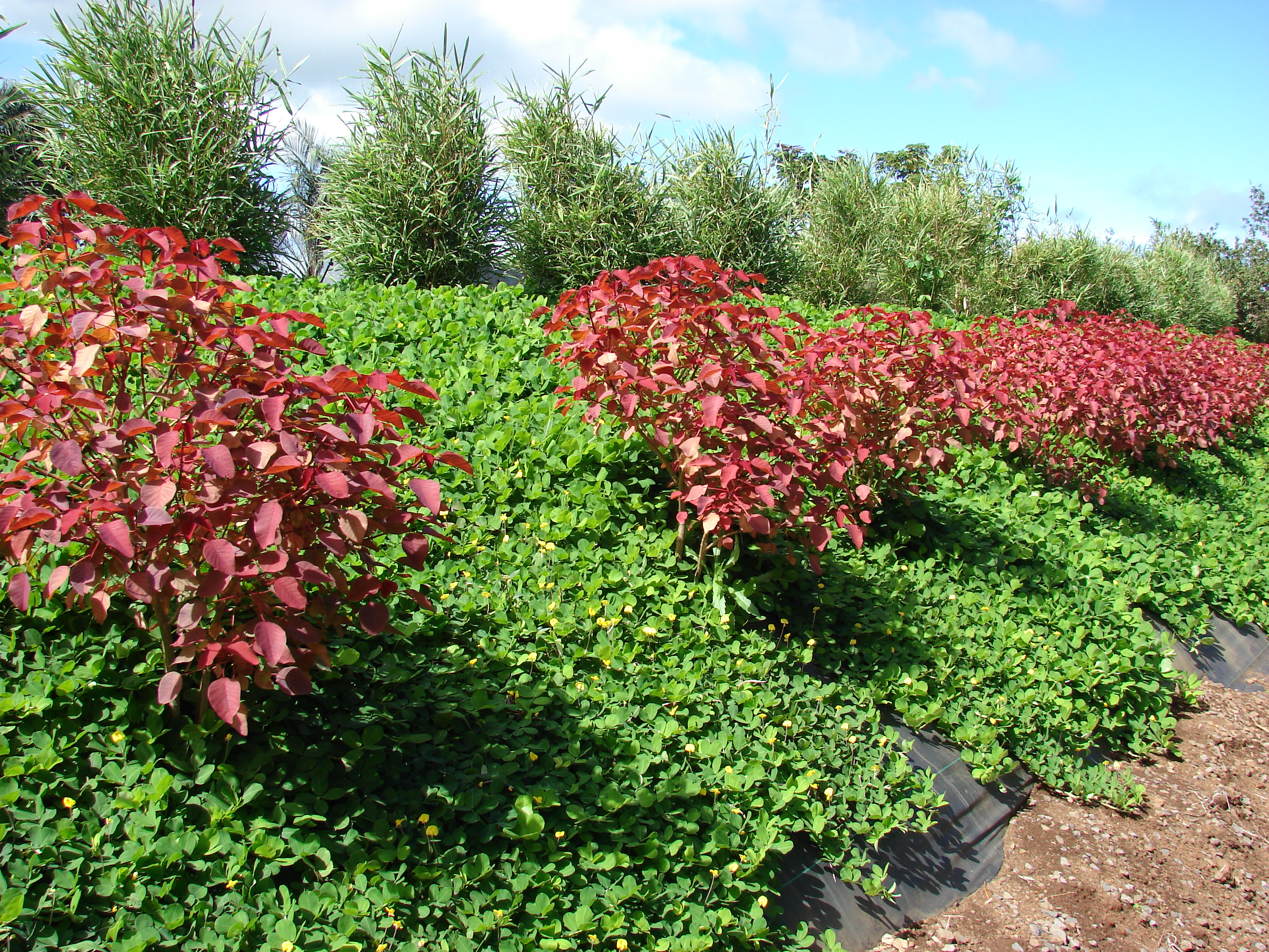 Arachis pintoi (habit). Location: Maui, Kokomo Rd Haiku